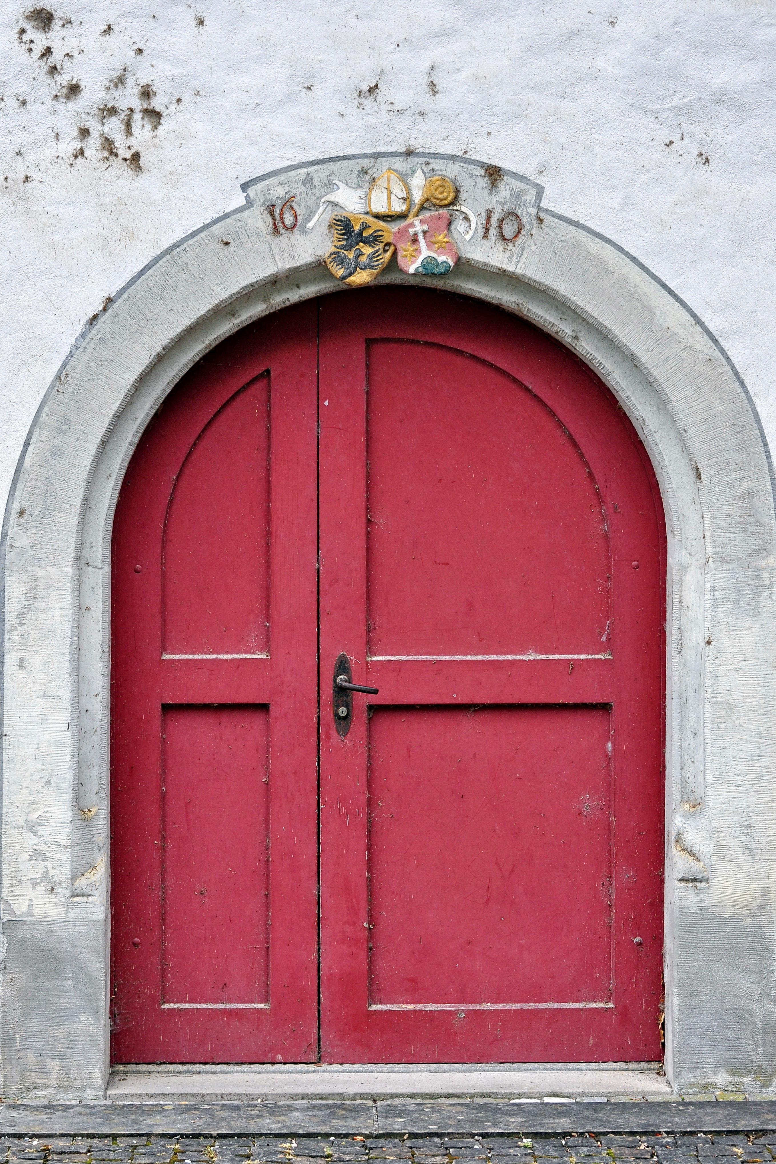 Rapperswil : Einsiedlerhaus at Kapuzinerkloster (Switzerland).